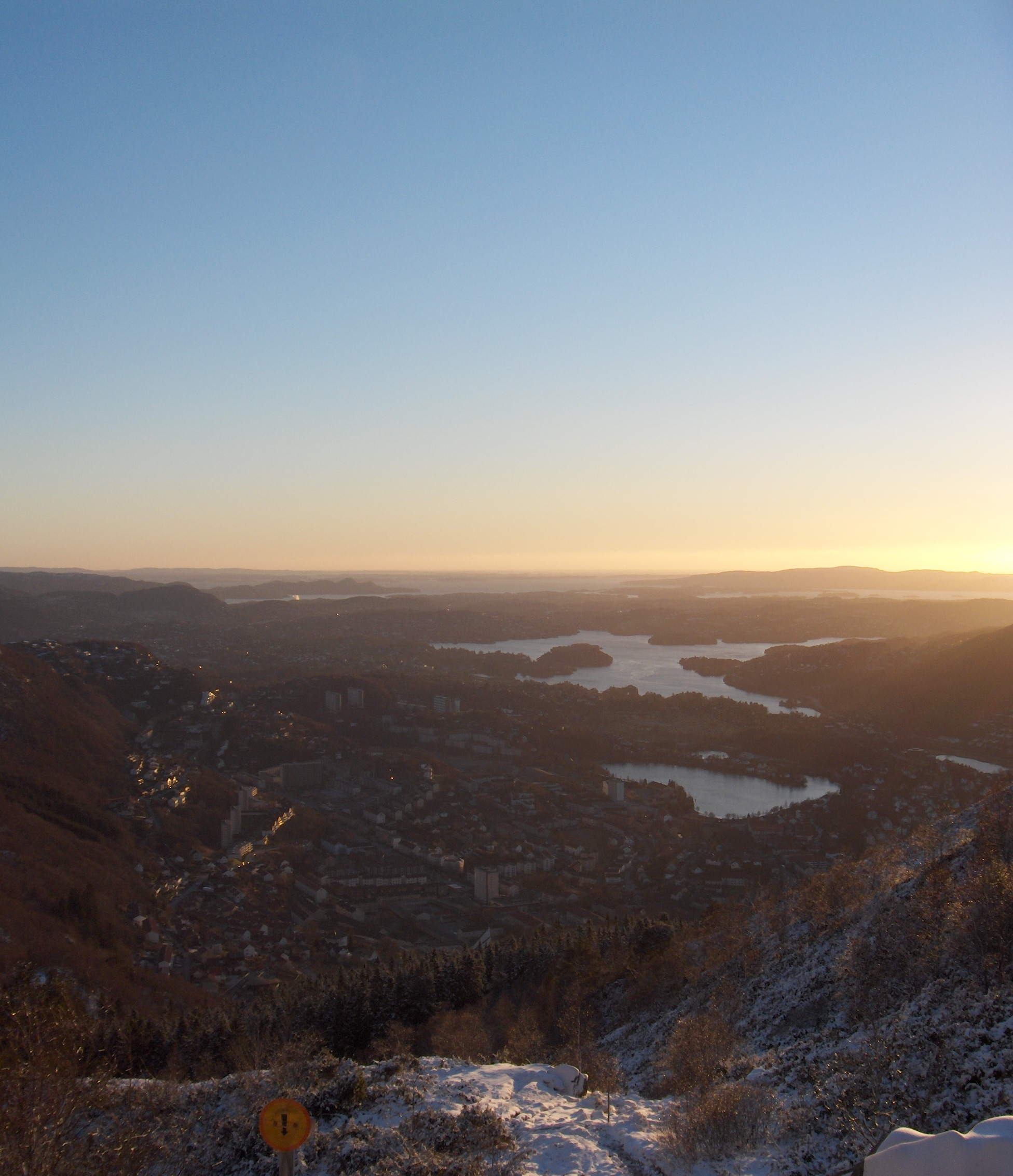 View towards Fana, from Ulriken Author : Thomas Moine